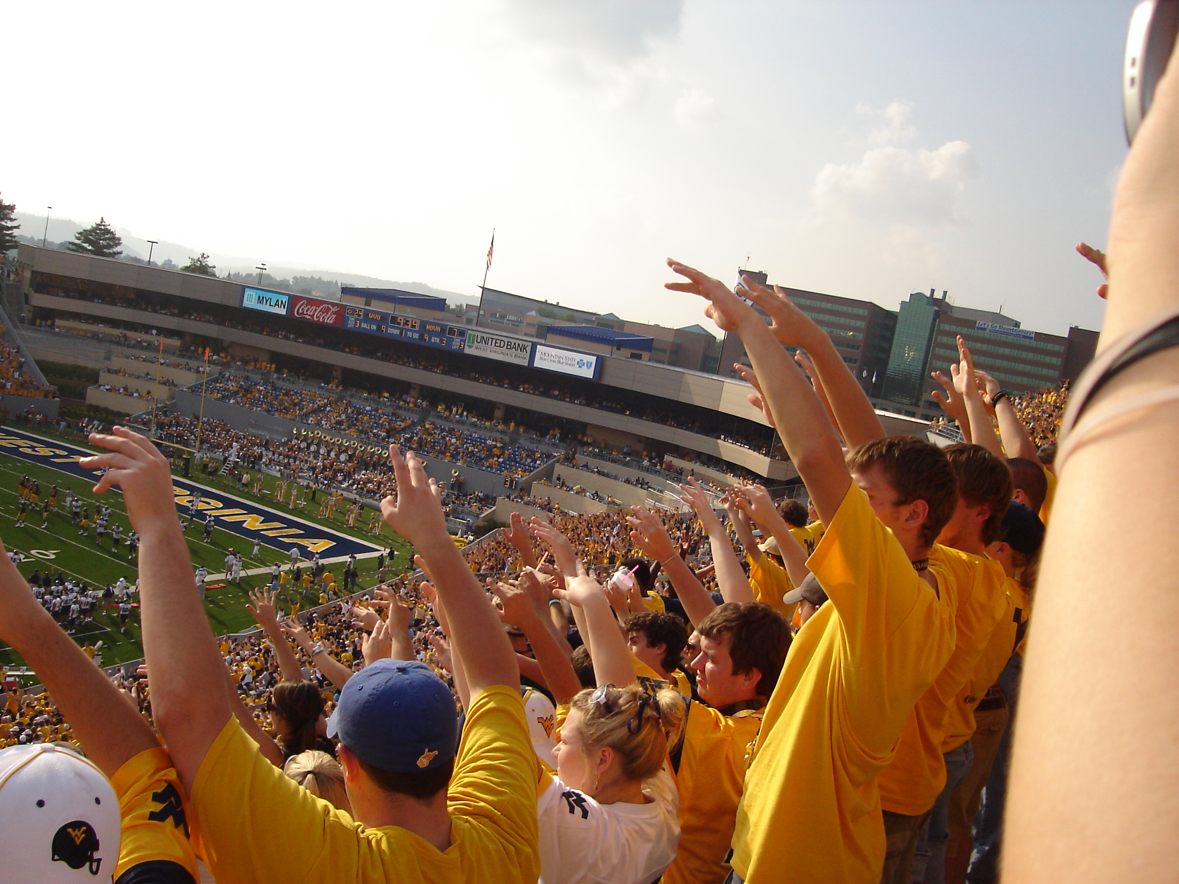 WVU Student Section at the 2008 home game against Villanova.